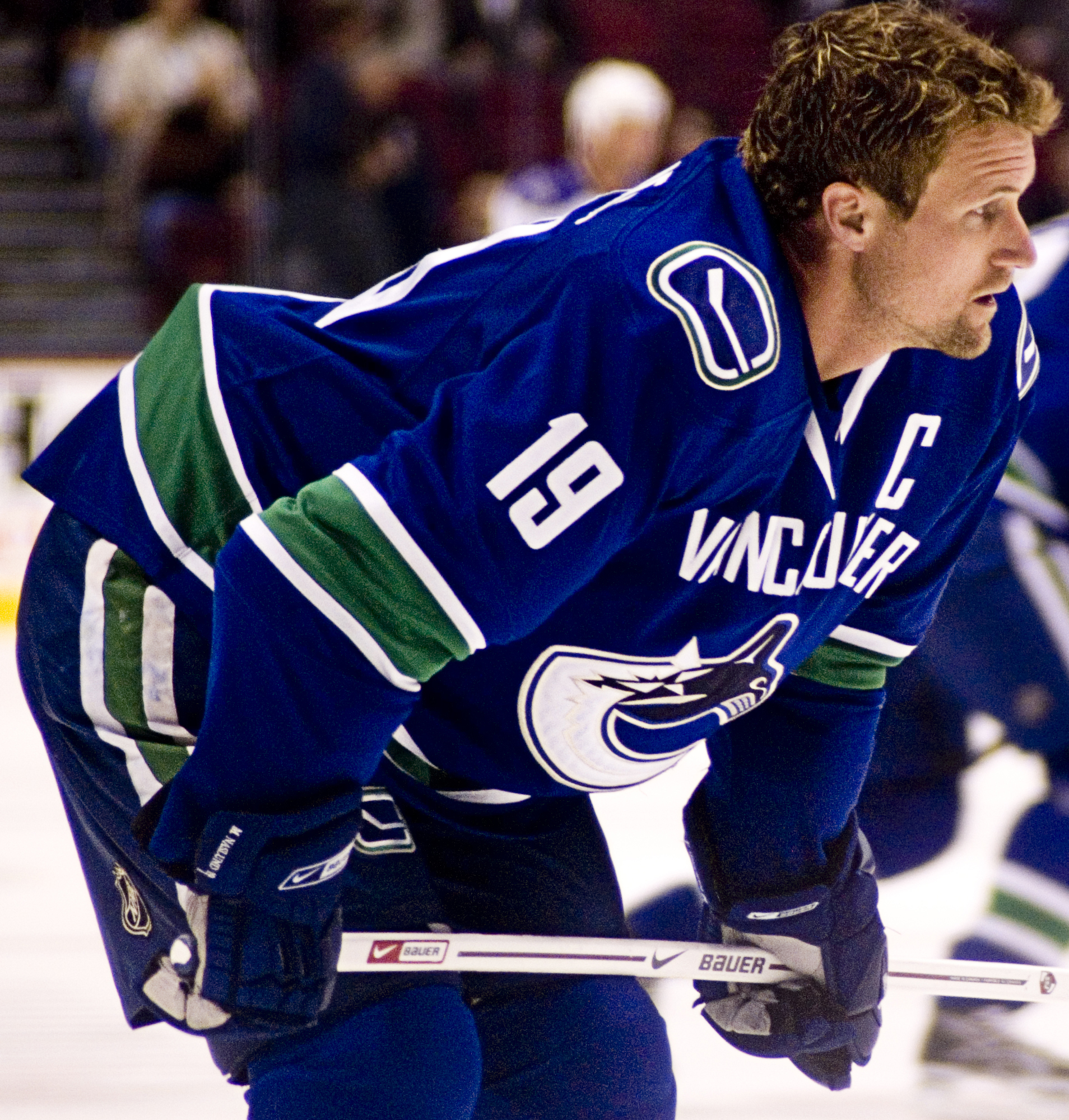 Markus Naslund, captain of the Vancouver Canucks